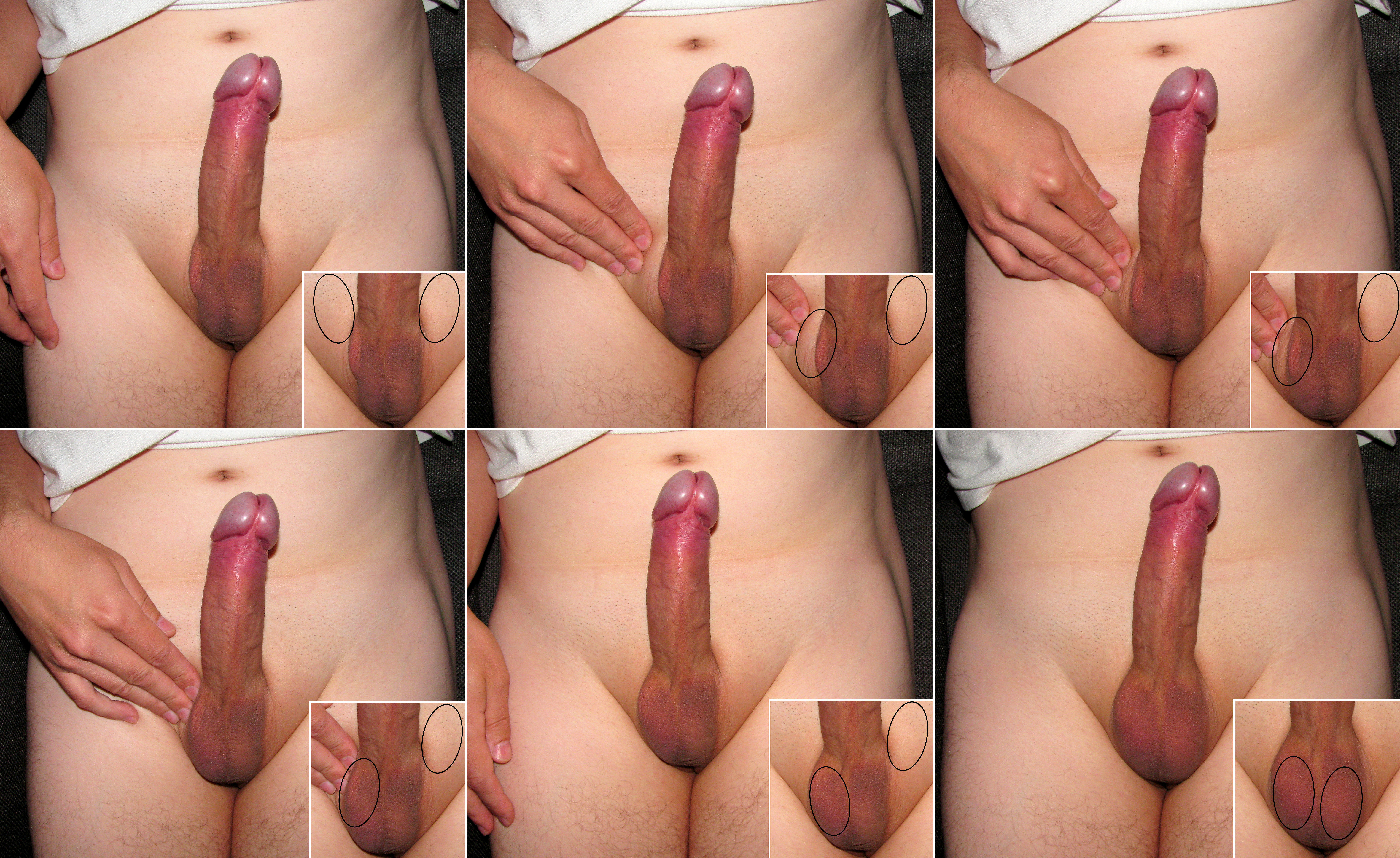 The male seen in this series of images has had a tendency of his testicles to slip or retract into the inguinal canals since childhood. This usually happens in cold temperatures or during strong sexual arousal when the scrotum tightens. This 34-year-old male (recumbent) has revealed his shaved genitals when his testicles have been retracted during sexual arousal. In this collage of images is demonstrated how the male gently pushes his right testicle back to the scrotum and how the scrotum looks like after the both testicles have been pushed down to the scrotum. The location of the testicles is shown (black ovals) in the small image windowses. Occasional testicular retraction is normal and harmless, this male finds it somewhat uncomfortable when the testicles are retracted. Sometimes the testicles retract so forcefully that they don't stay in the scrotum regardless of recurrently pushing them back. Sometimes retracted testicles may cause social embarrasment, for example after swimming in cold water abnormal anatomy of an empty scrotum may be obviously visible through swimming pants or retracted testicles may cause inconvenience and embarrasment in sexually active situations.